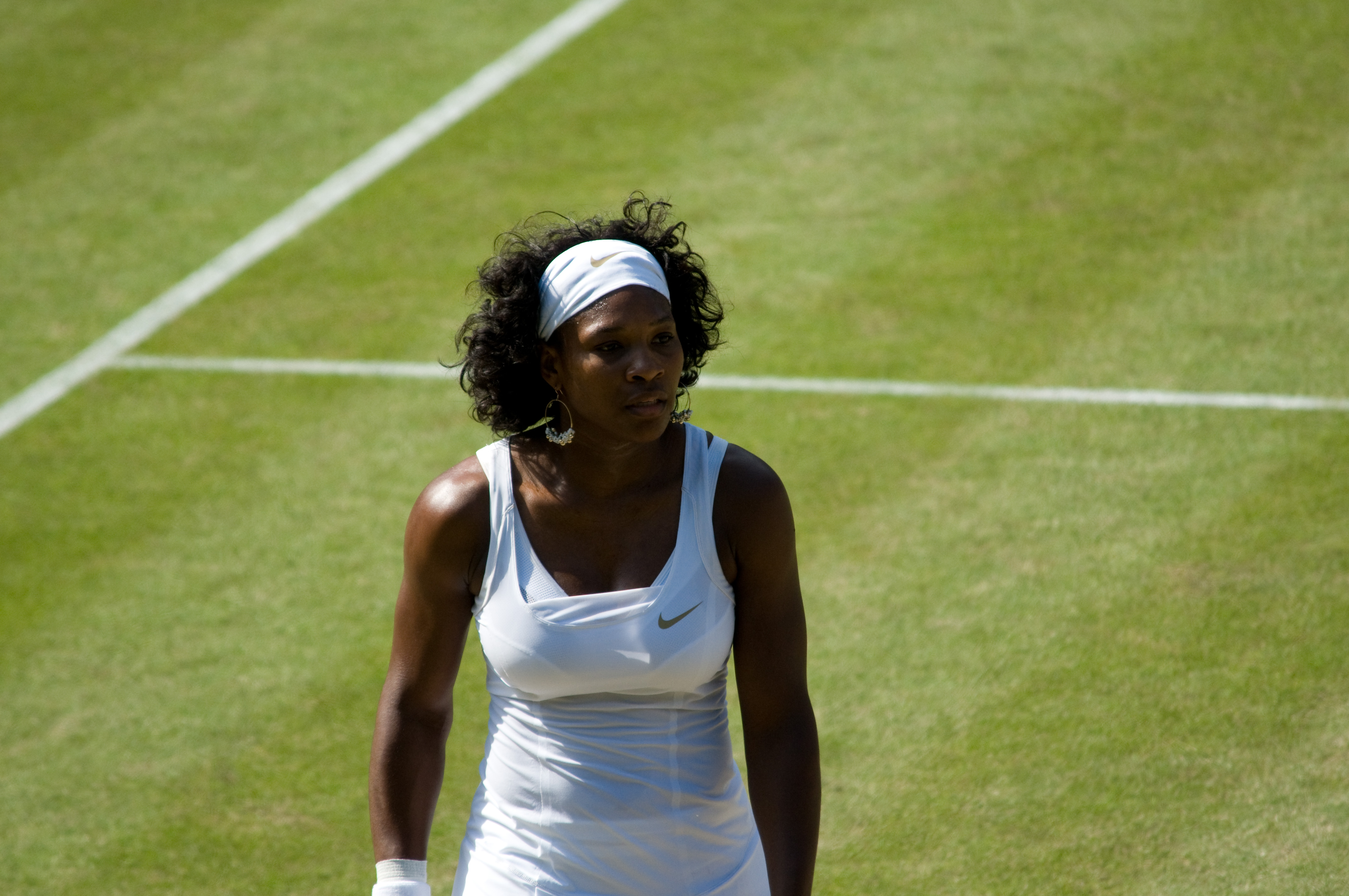 Serena Williams at the 2008 Wimbledon Championships